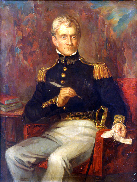 Portrait of Sylvanus Thayer by Robert W. Weir photo of portrait originally found at domain